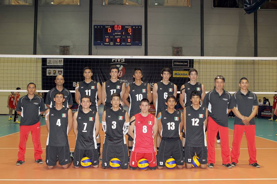 Mundial juvenil de voleibol